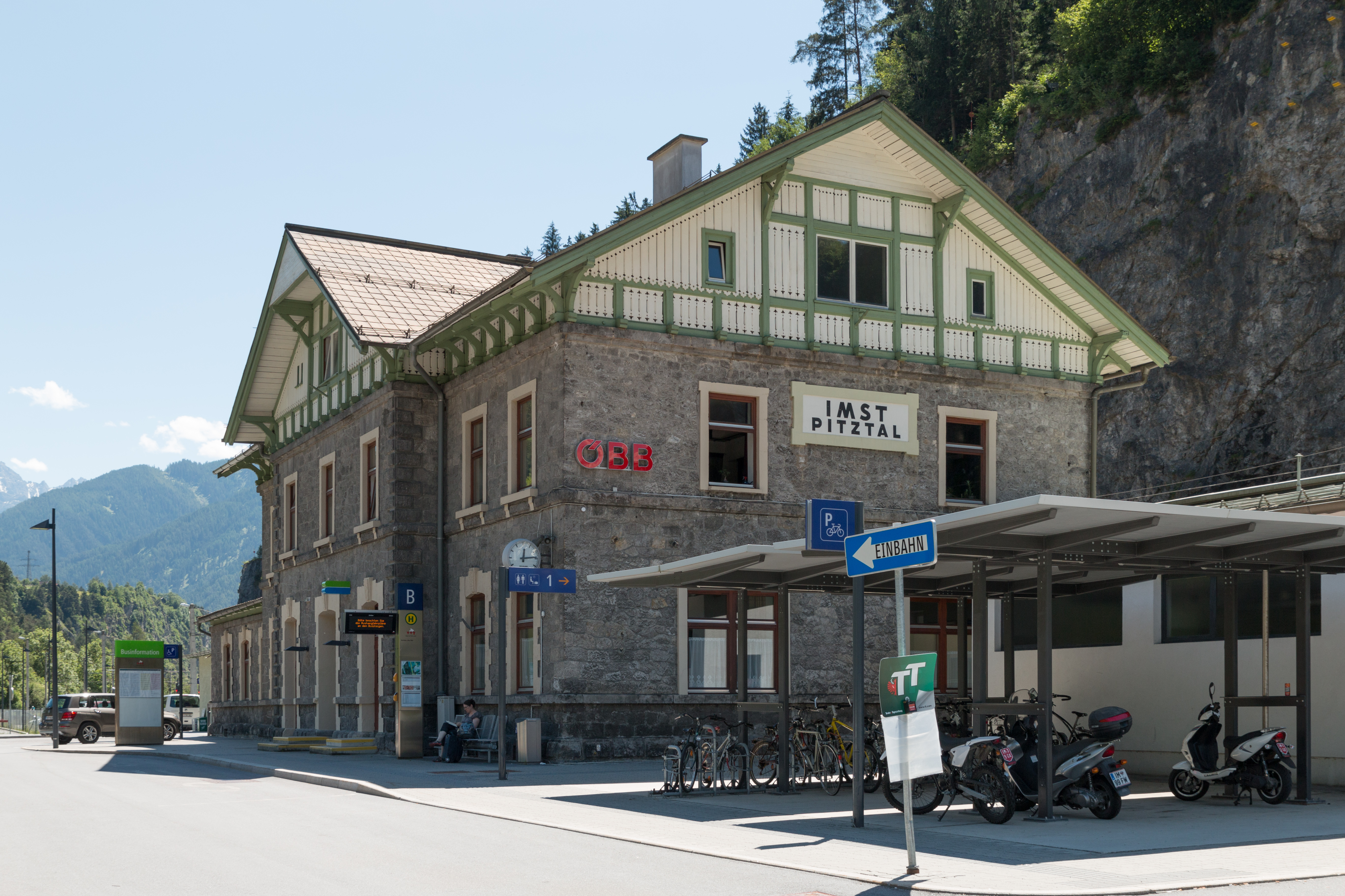 Station building of the train station Imst-Pitztal, Tyrol, Austria.